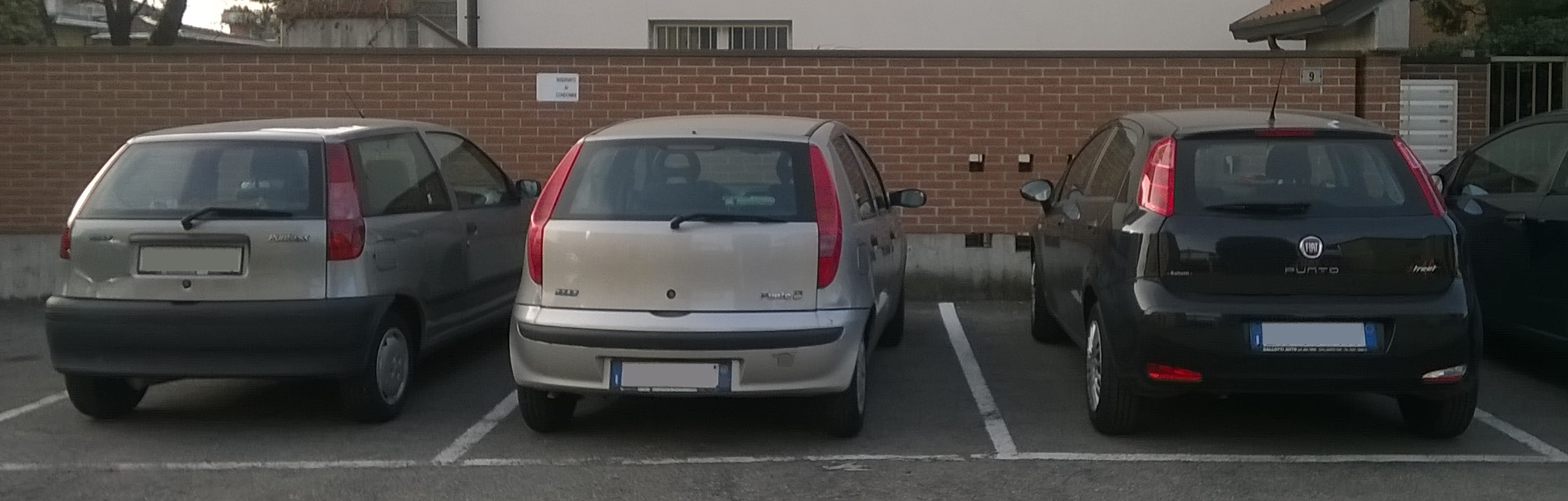 3 generations of Fiat Punto 3 generazioni di Fiat Punto